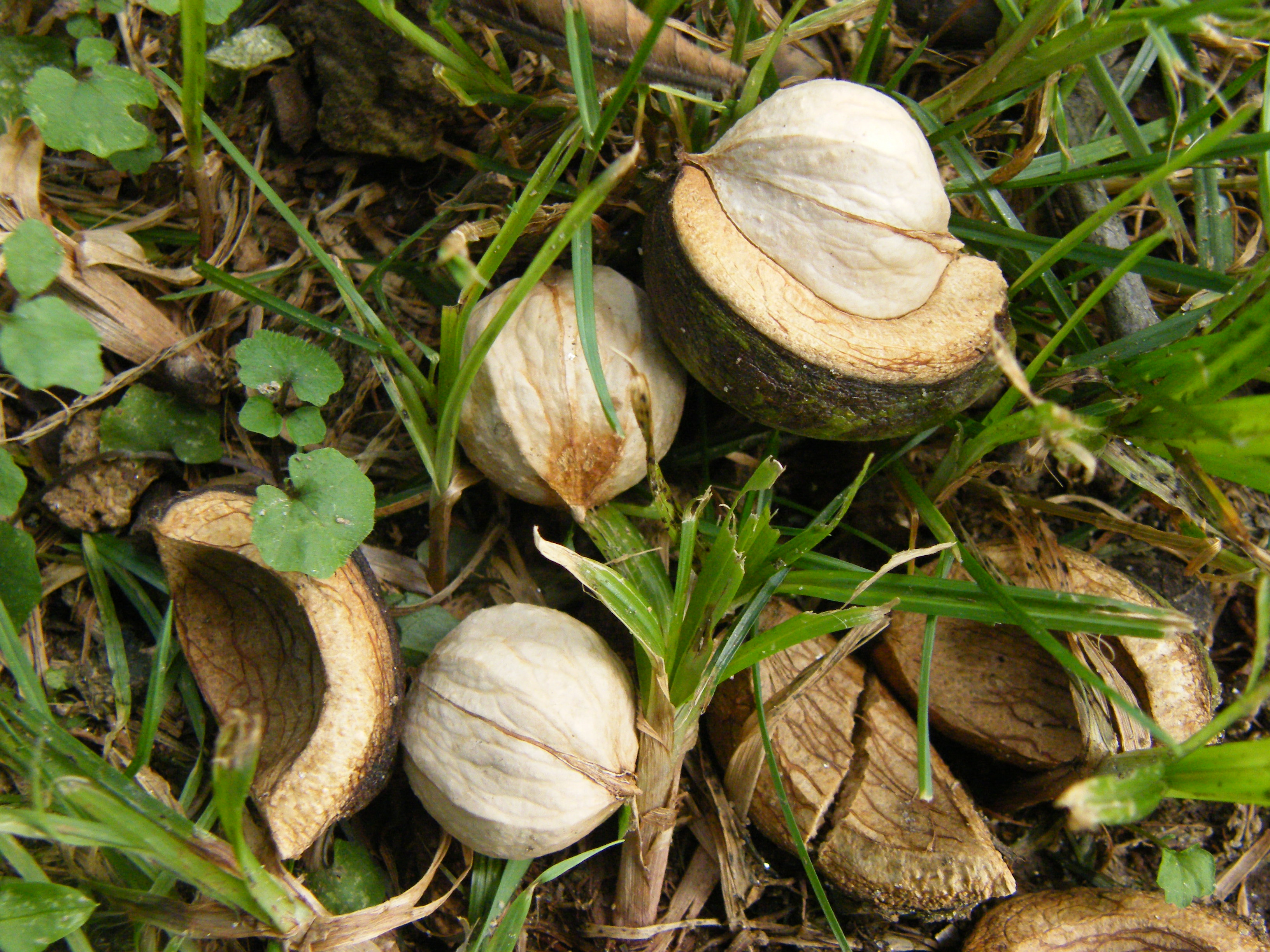 Eastern hickory nuts below tree, Pennsylvania